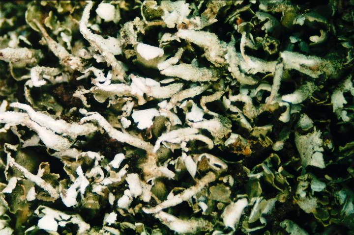 Cladonia coniocraea (Flörke) Spreng., 1827 (photograph of a herbarium specimen taken through a dissecting microscope (x6) showing powderhorn-shaped podetia arising from the center of primary squamules) Growing at the base of a lightly shaded tree, 2.2 miles W from the University of Michigan Biological Station, Cheboygan County, Michigan, USA; collected and identified by Richard E. Riefner (No. 81-209, 23 Jun 1981); specimen is now in the Lichen Herbarium of the New York Botanical Garden.